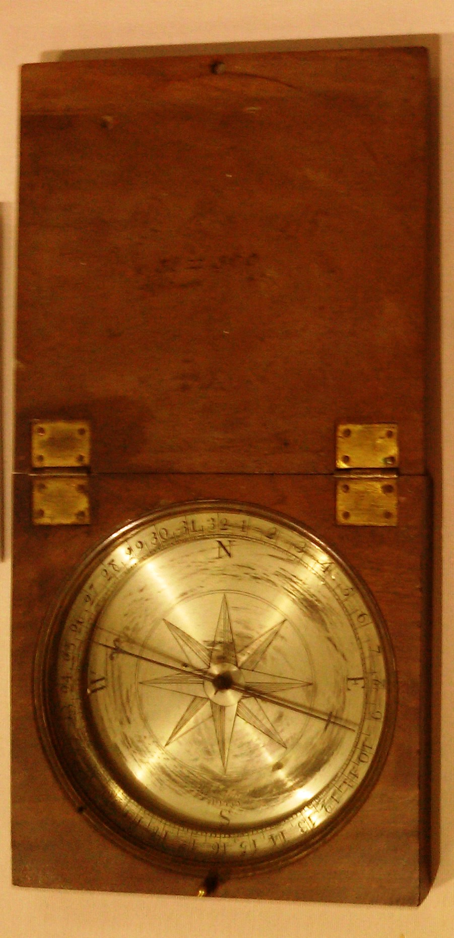 Peter Perez Burdetts compass by John Whitehurst